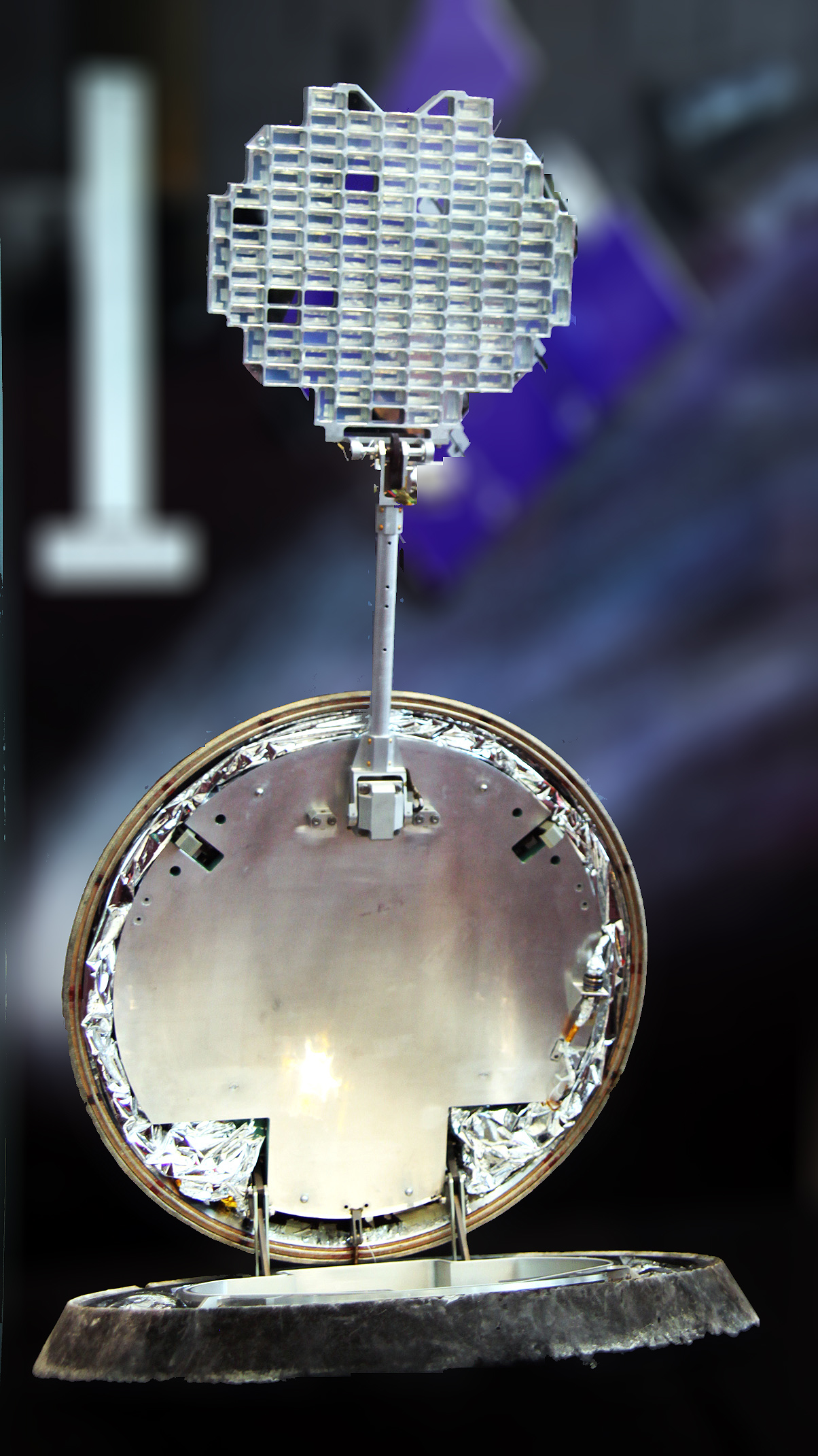 The return capsule from the Stardust space probe, on display in the Smithsonian Air and Space Museum in Washington, D.C. Cropped and object-focused version.